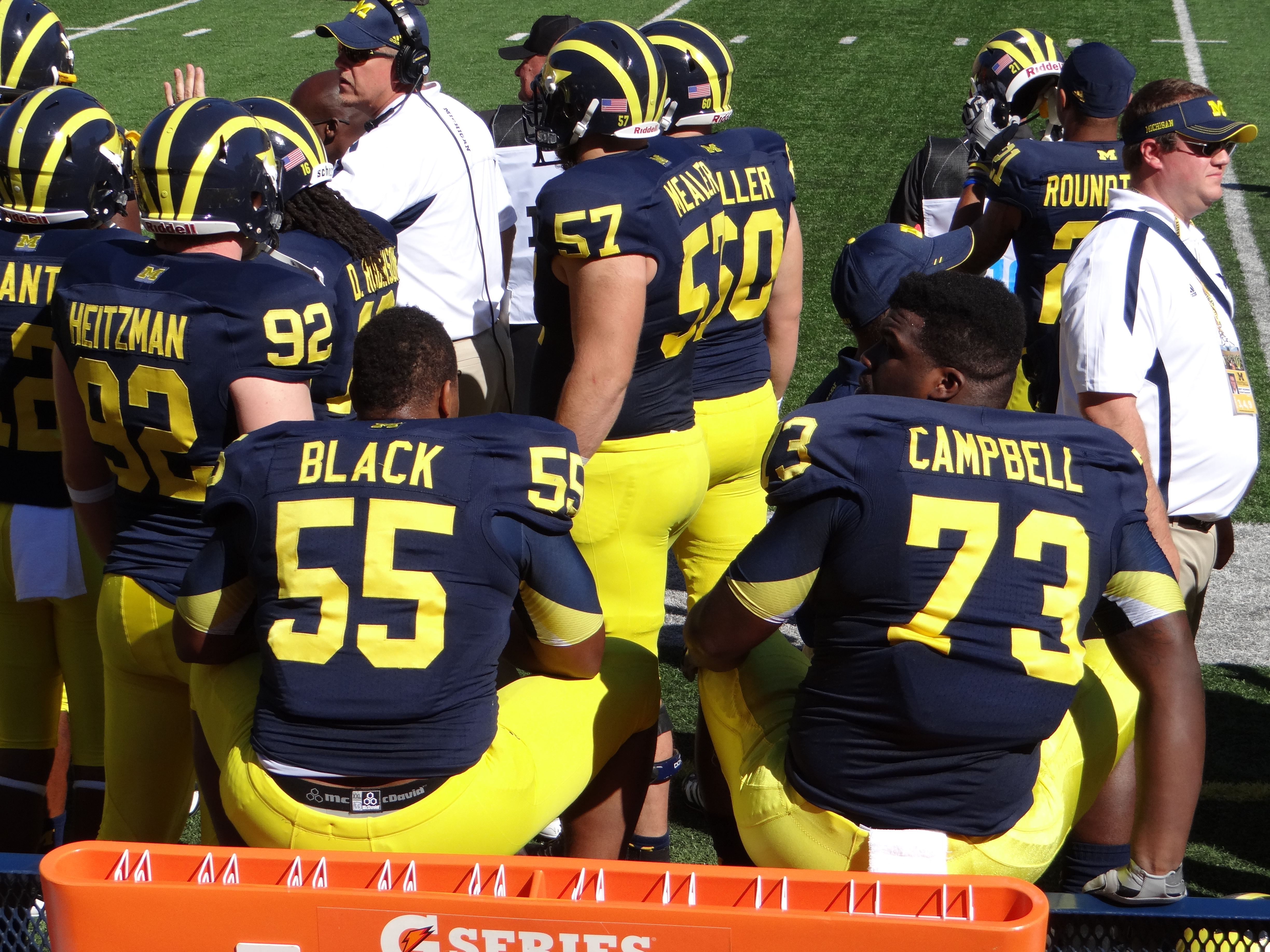 Defensive tackles Jibreel Black and William Campbell (Michigan football players) on the Michigan bench during game against UMass at Michigan Stadium